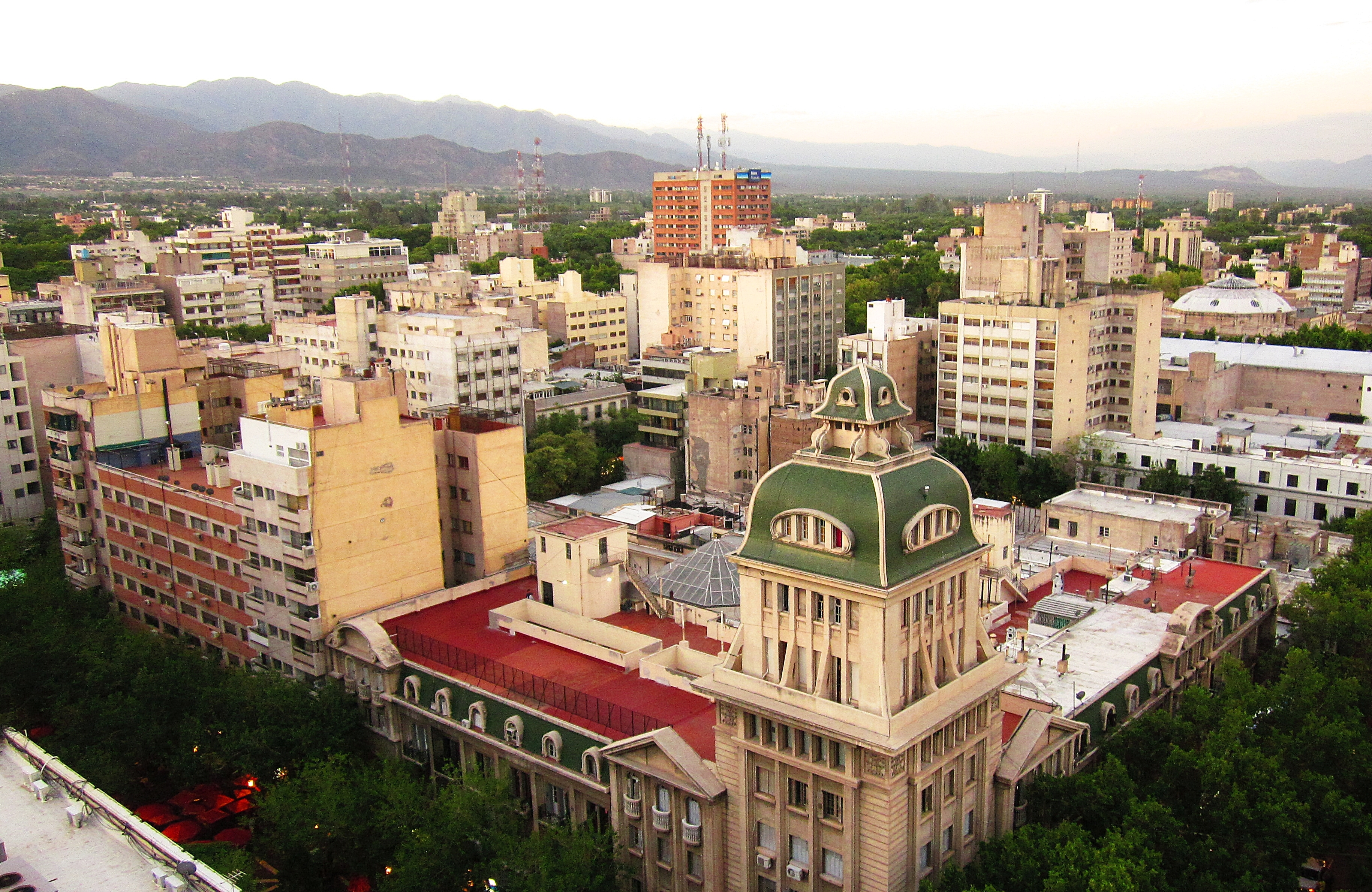 Uno de los sectores de la ciudad visto desde lo más alto del edificio Gómez. El Pasaje San Martín se aprecia en la primera plana.